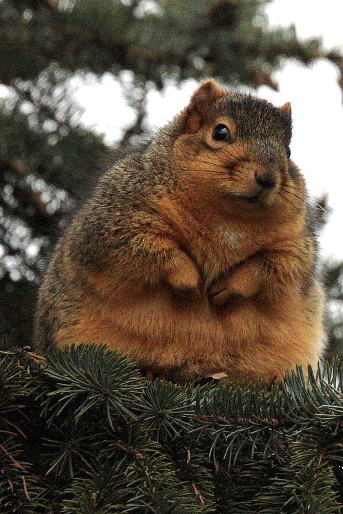 Sitting high up in one of our pine trees and showing off his form.